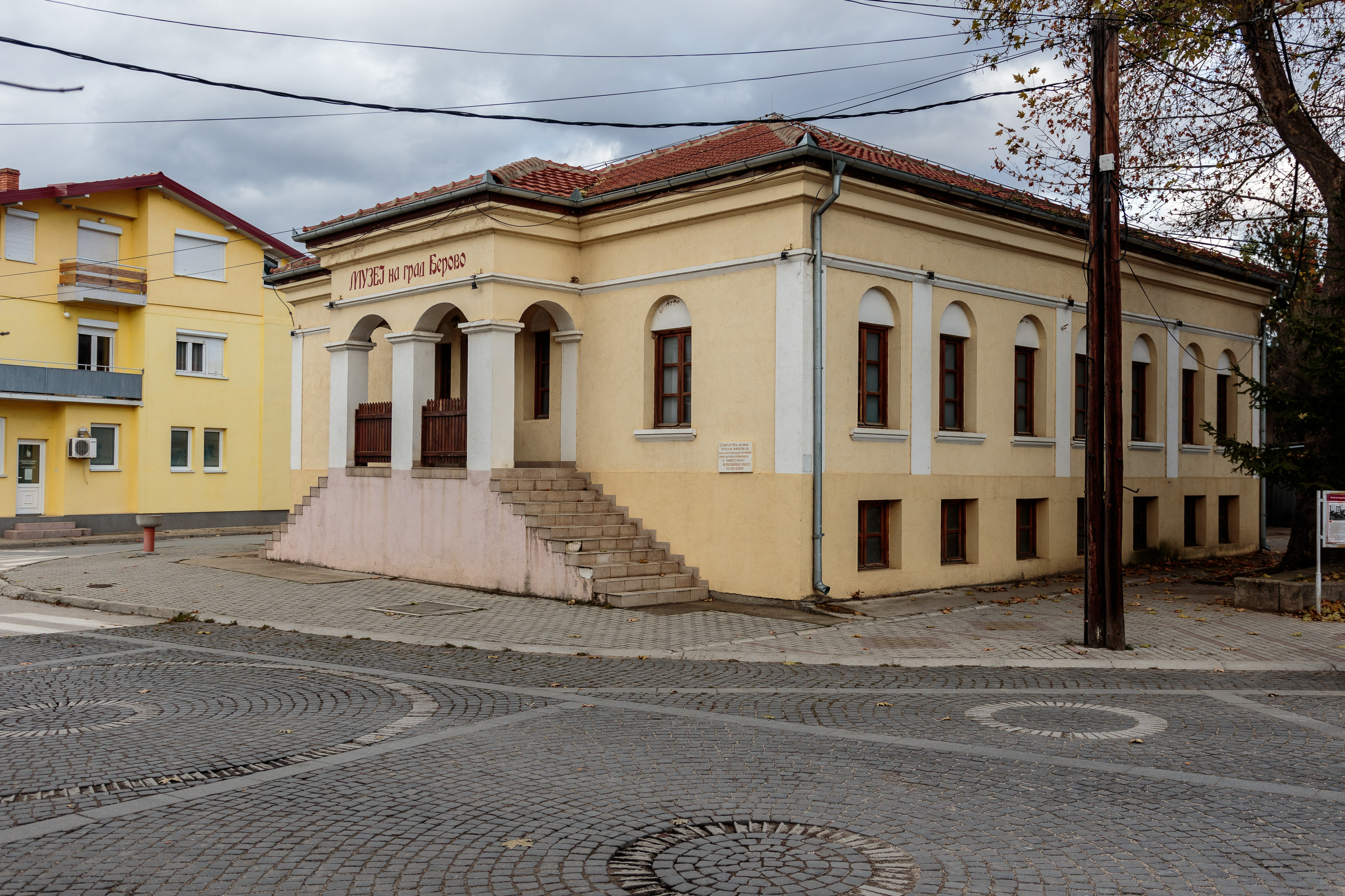 City museum in Berovo